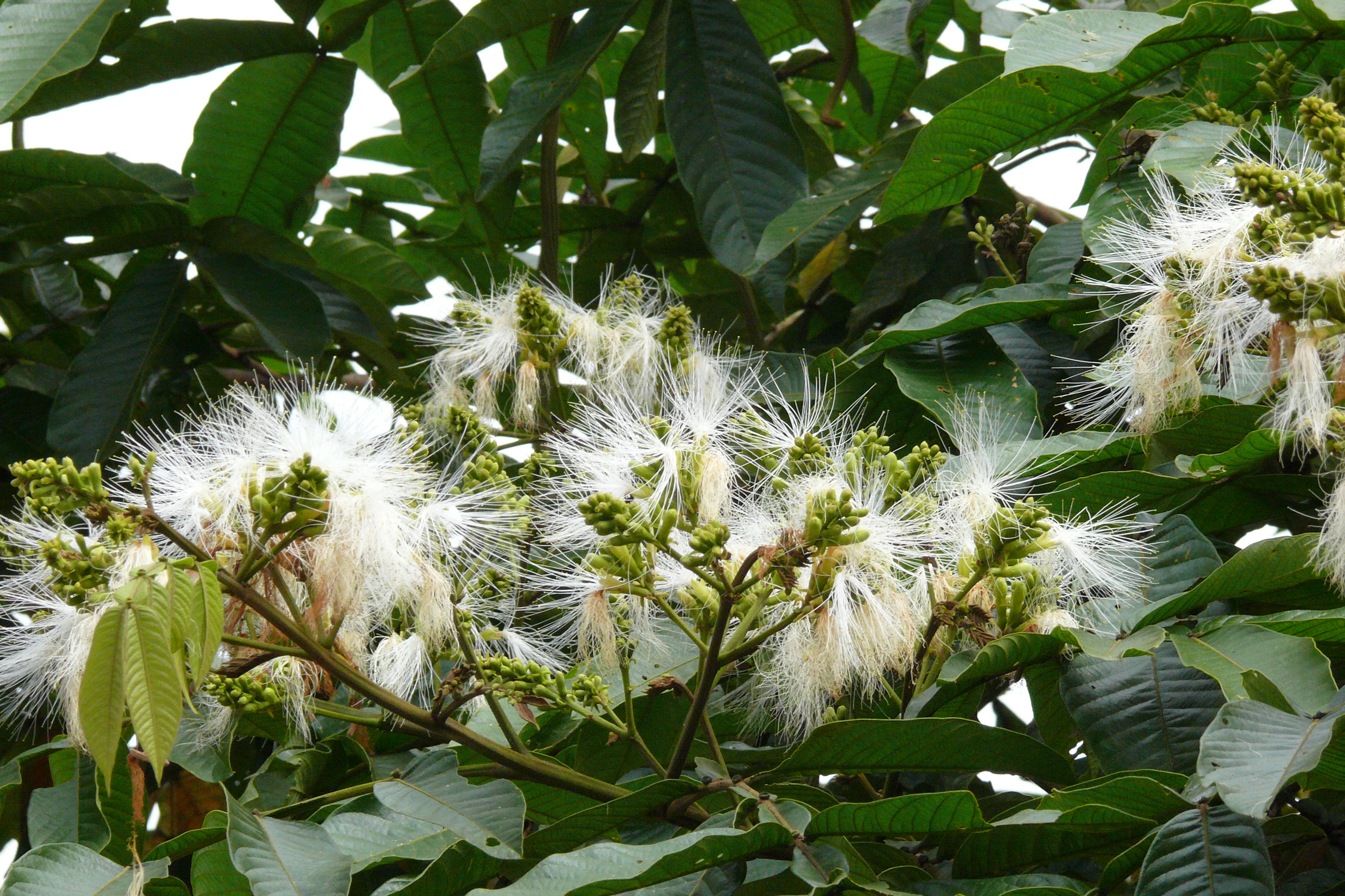 Inga sp. fotographed in Ecuador